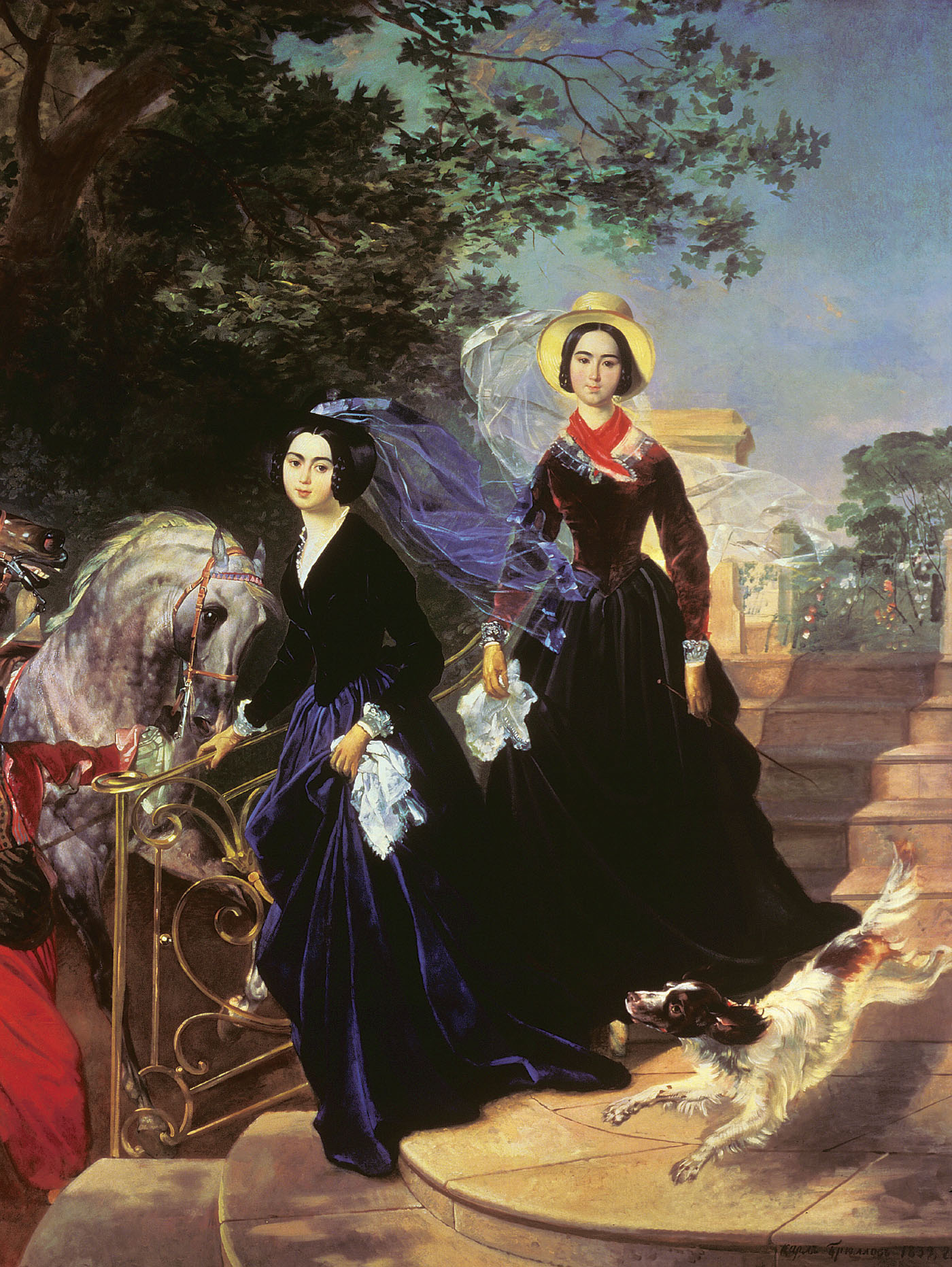 Portrait of the Shishmareva Sisters